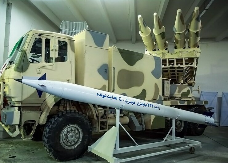 An Iranian 333 mm Fajr-5C artillery rocket in seen in front of its truck launcher at its unveiling ceremony in 2017.